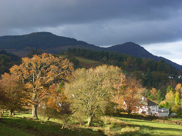 Trees and pasture, Braithwaite A house on the southern edge of the village and a view toward Barf from the footpath east of Braithwaite Lodge.